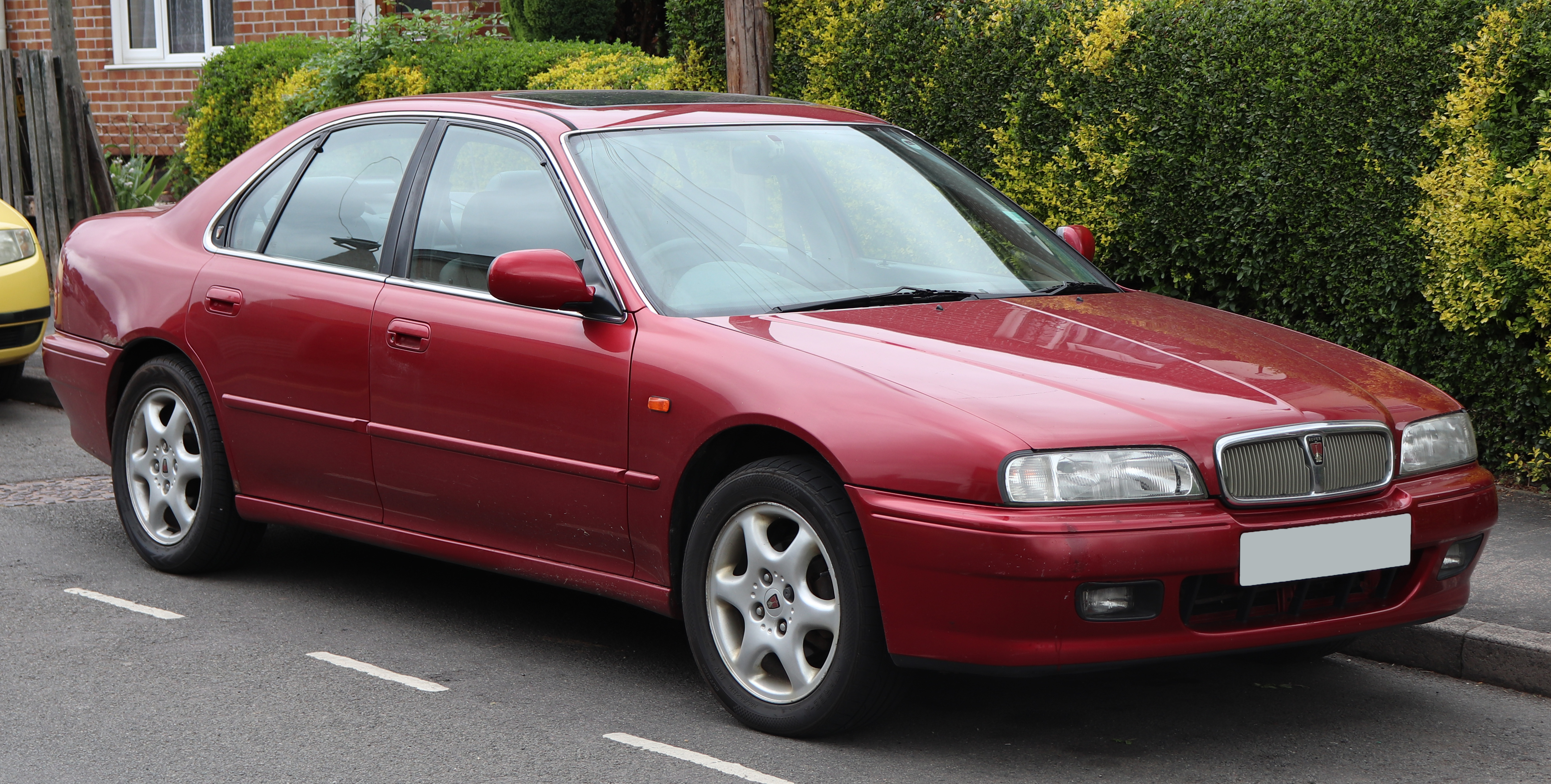 1999 Rover 618i S 1.8 Front Taken in Leamington Spa